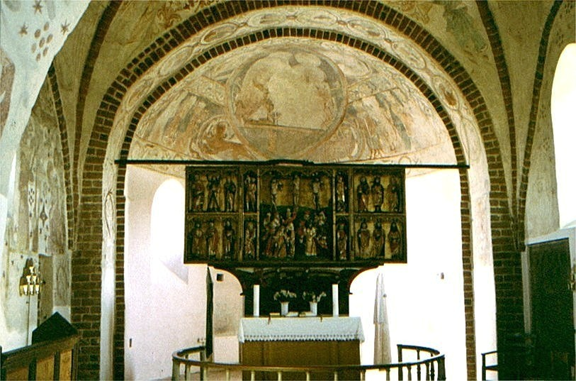 Brarup Kirke with frescoes by The Brarupmaster